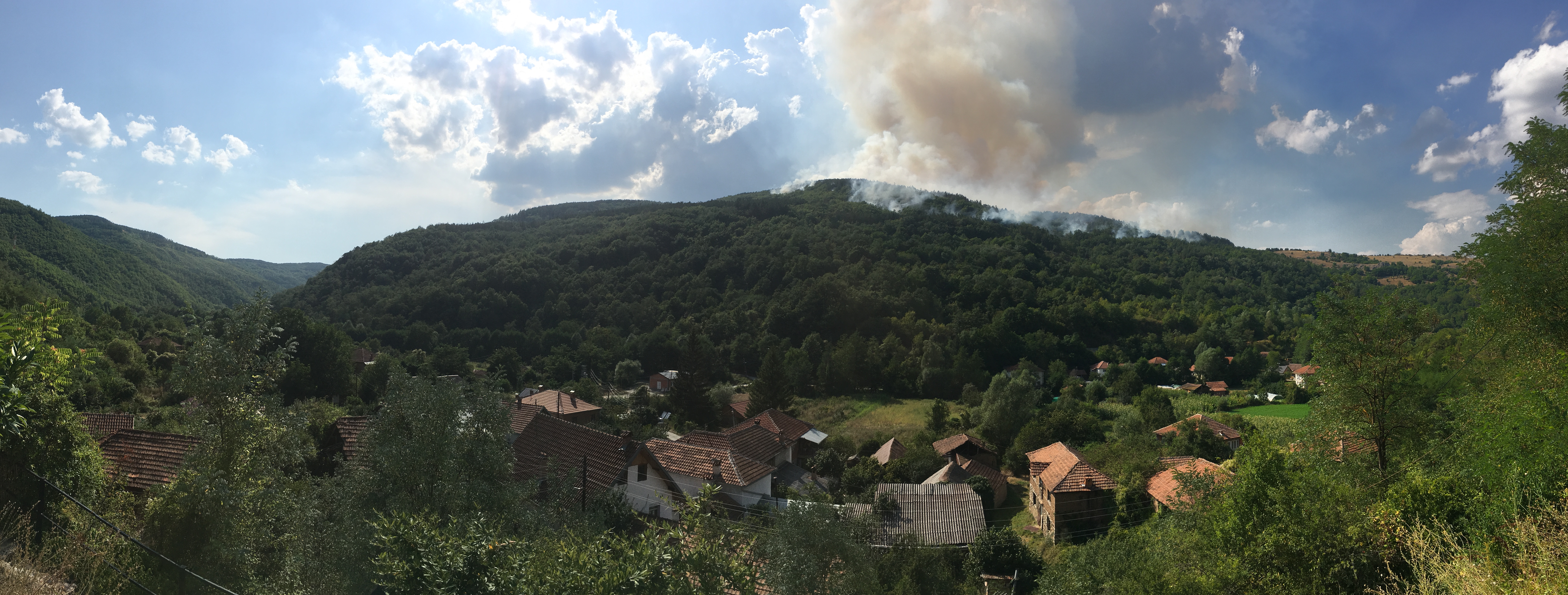 A panoramic view of the village of Openica